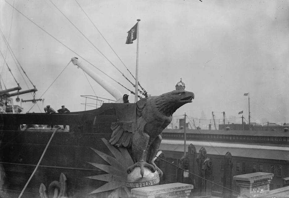 SS Imperator's damaged Eagle. SS Imperator, an ocean liner of the Hamburg America Line. Wings of figurehead were destroyed by a storm in 1914.